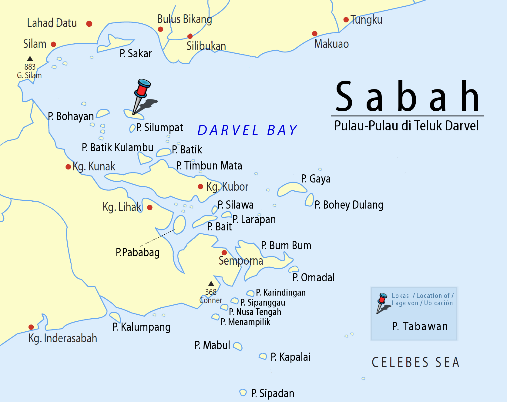 Sabah: Scheme of Islands in the Darvel Bay with Pushpin Marker for Pulau Tabawan